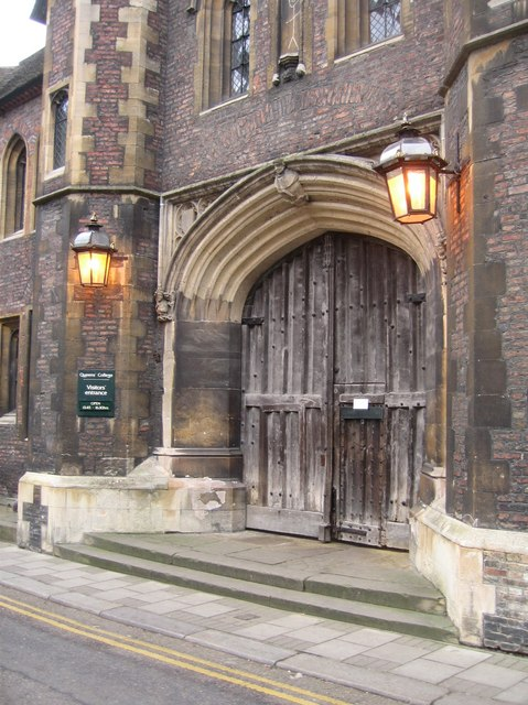 Visitors' Entrance - Queens' College